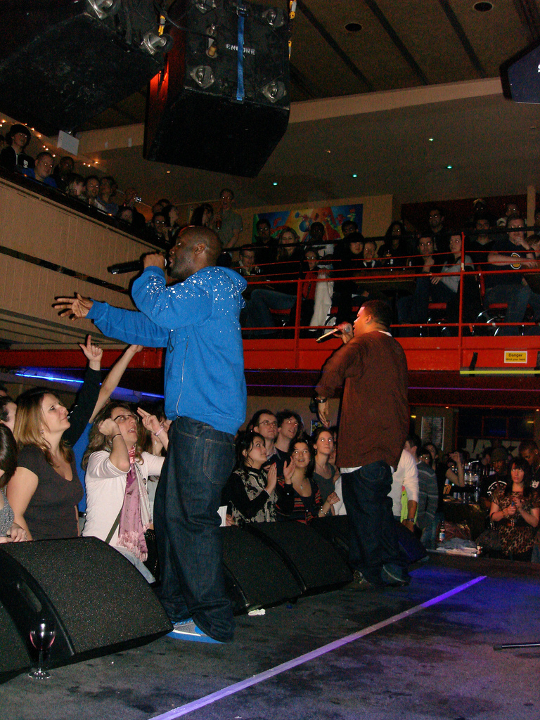 De La Soul at the Jazz Cafe in London.